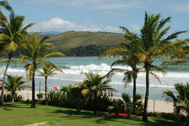 Marsias Beach, Sao Sebastiao, SP, Brazil